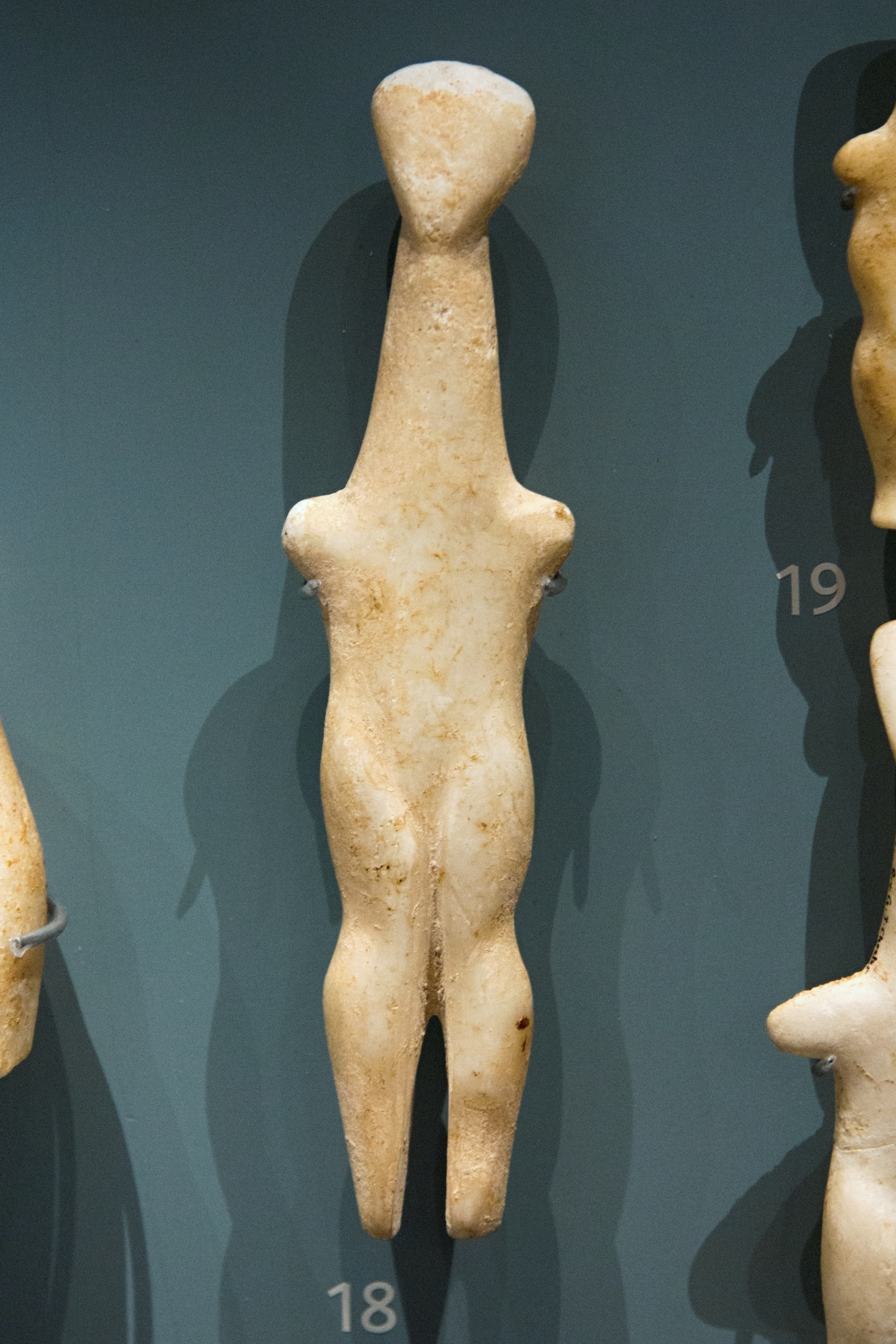 Cycladic female figurine, Louros type, marble. From a niche in cist tomb 26 at Louros Athalassou on Naxos. Early Bronze Age, EC I / II, 2800 – 2700 BC. Ashmolean Museum AN 1946.117. This figurine was placed in the tomb along with other six marble figurines and numerous objects, including copper needles, marble vessels, a frying pan, clay pots and necklace of about 200 small silver discs.